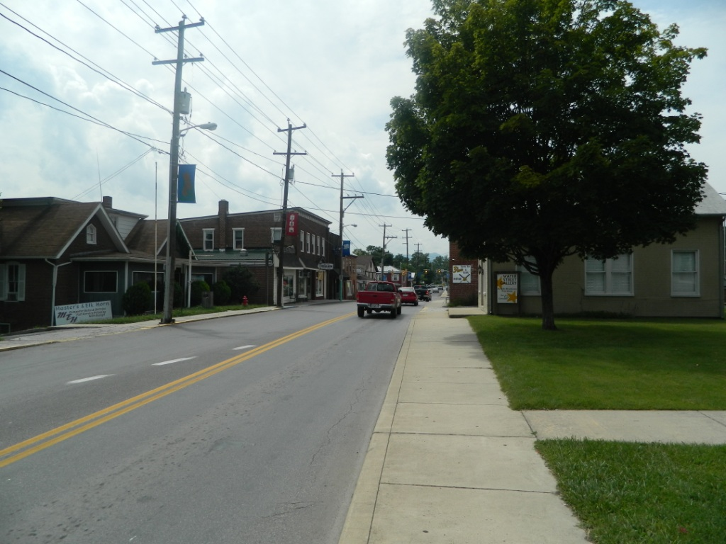 Virginia Avenue, Petersburg, West Virginia. August 2012.